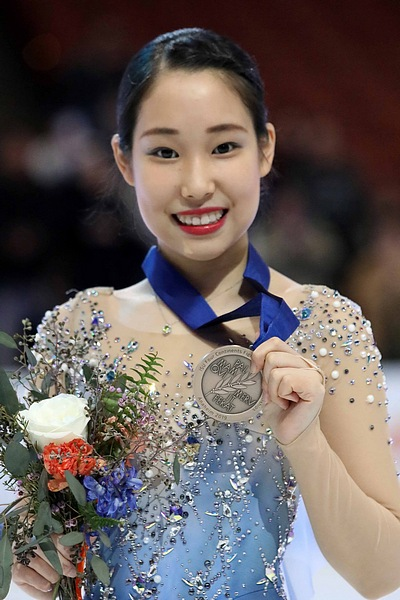 Mai Mihara at the 2019 Four Continents Championships - Awarding ceremony